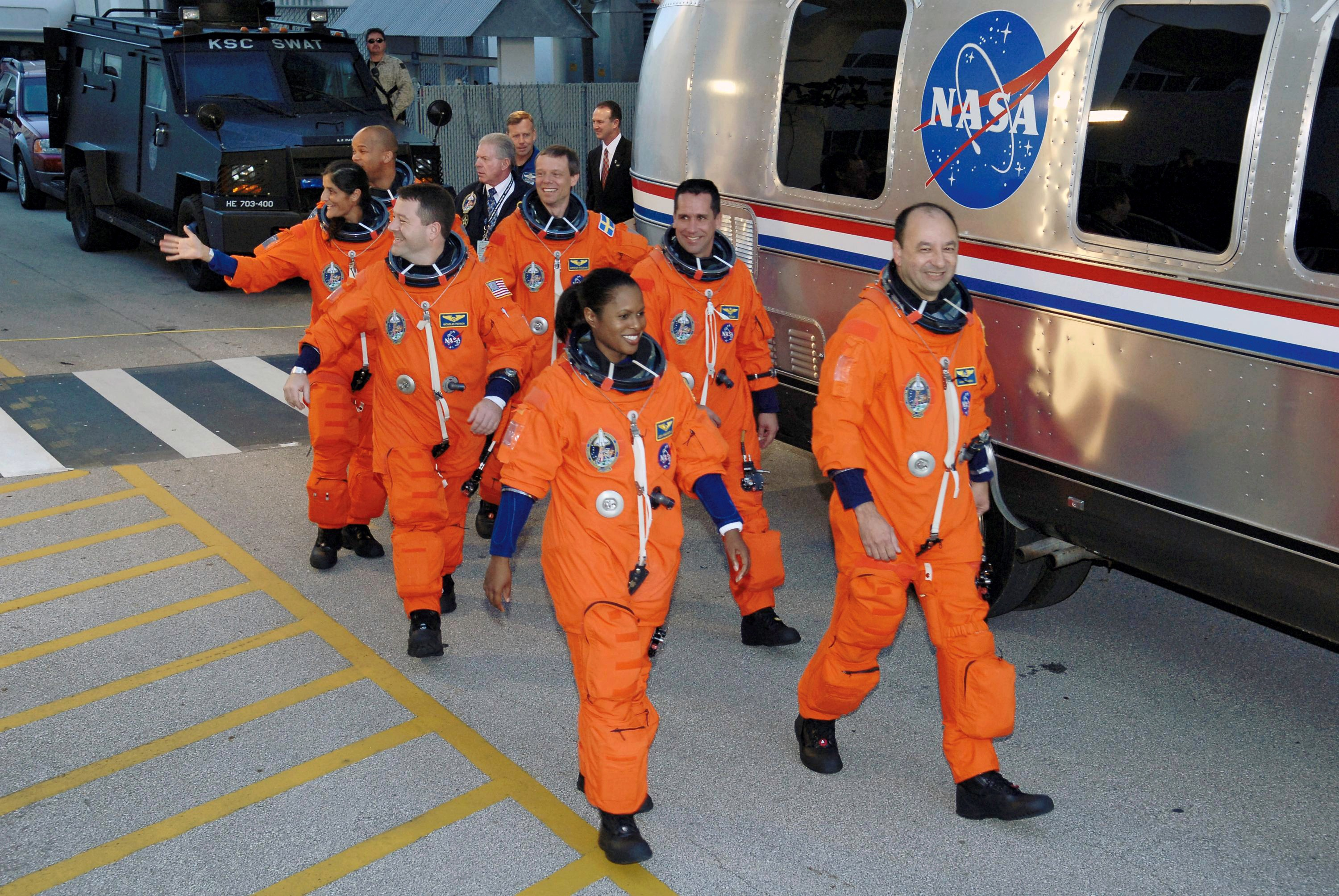 STS-116 Shuttle Mission Imagery After suiting up, the STS-116 crewmembers exit the Operations and Checkout Building to board the Astrovan, which will take them to launch pad 39B at Kennedy Space Center. On the right (front to back) are astronauts Mark L. Polansky, commander; William S. (Bill) Oefelein, pilot; and Christer Fuglesang, mission specialists representing the European Space Agency (ESA). On the left (front to back) are astronauts Joan E. Higginbotham, Nicholas J. M. Patrick, Sunita L. Williams and Robert L. Curbeam, Jr., all mission specialists. Discovery's seven-member crew will link up with the International Space Station on Monday, Dec. 11, to begin a complex, week-long stay that will rewire the outpost and increase its power supply. During three spacewalks and intricate choreography with ground controllers, the astronauts will bring electrical power on line generated by a giant solar array wing delivered to the station in September.